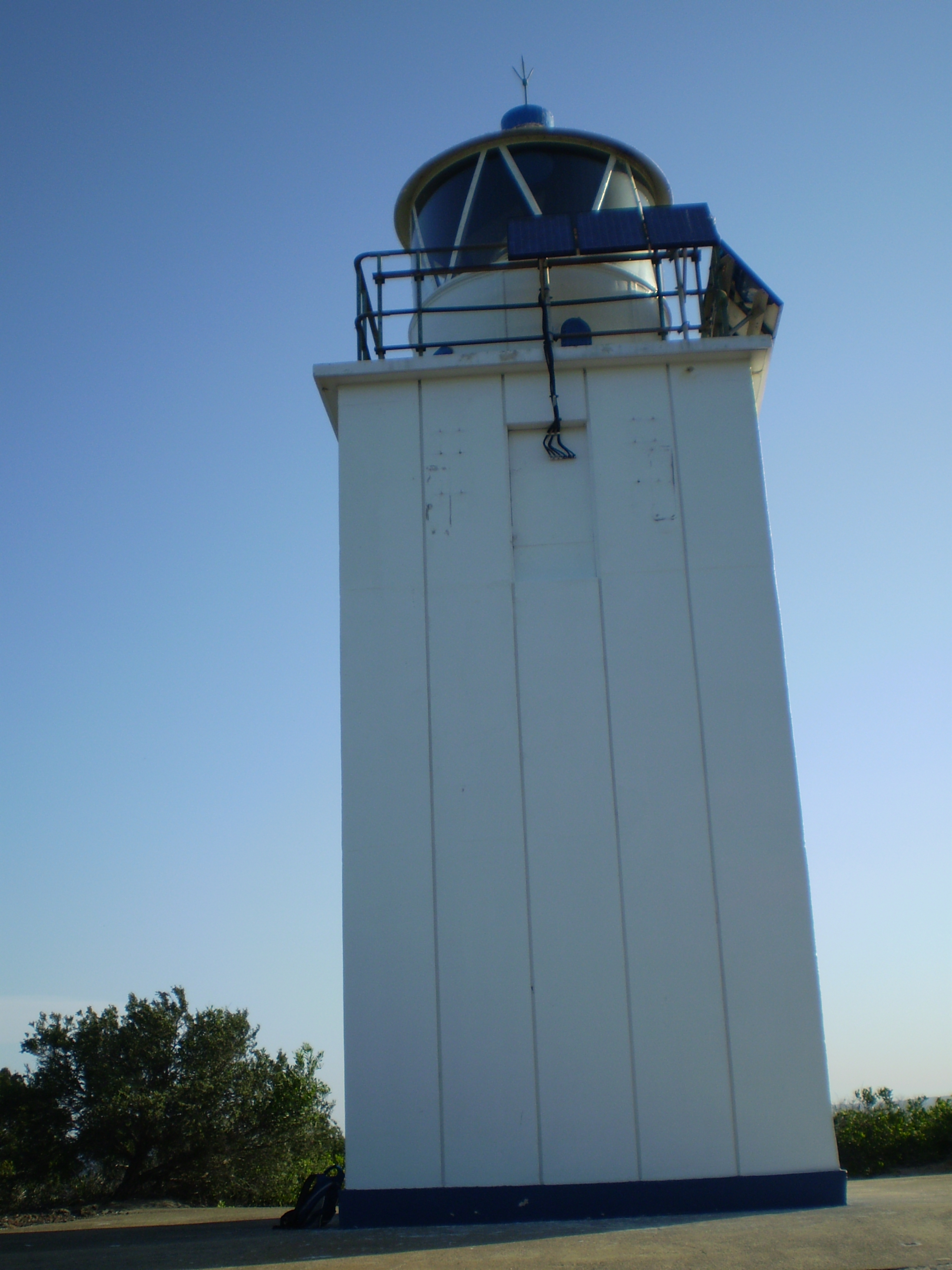 Cape Bailey Lighthouse